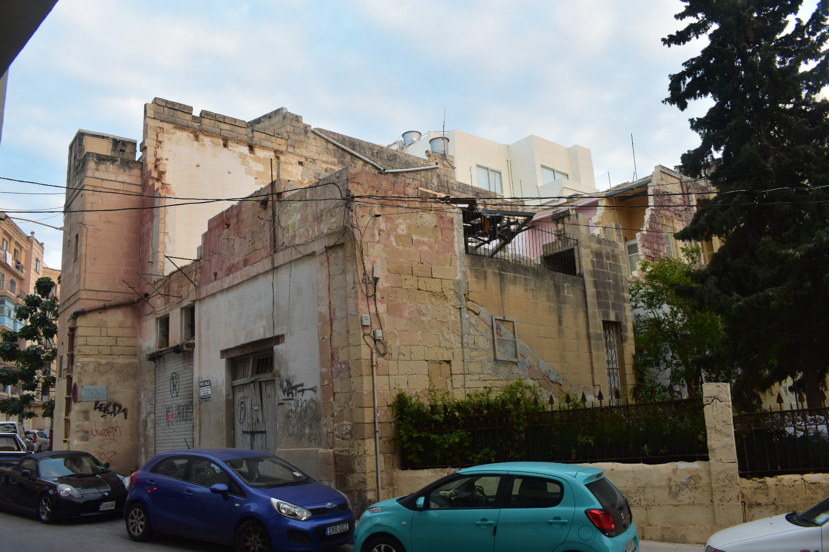 St. Ignatius Villa